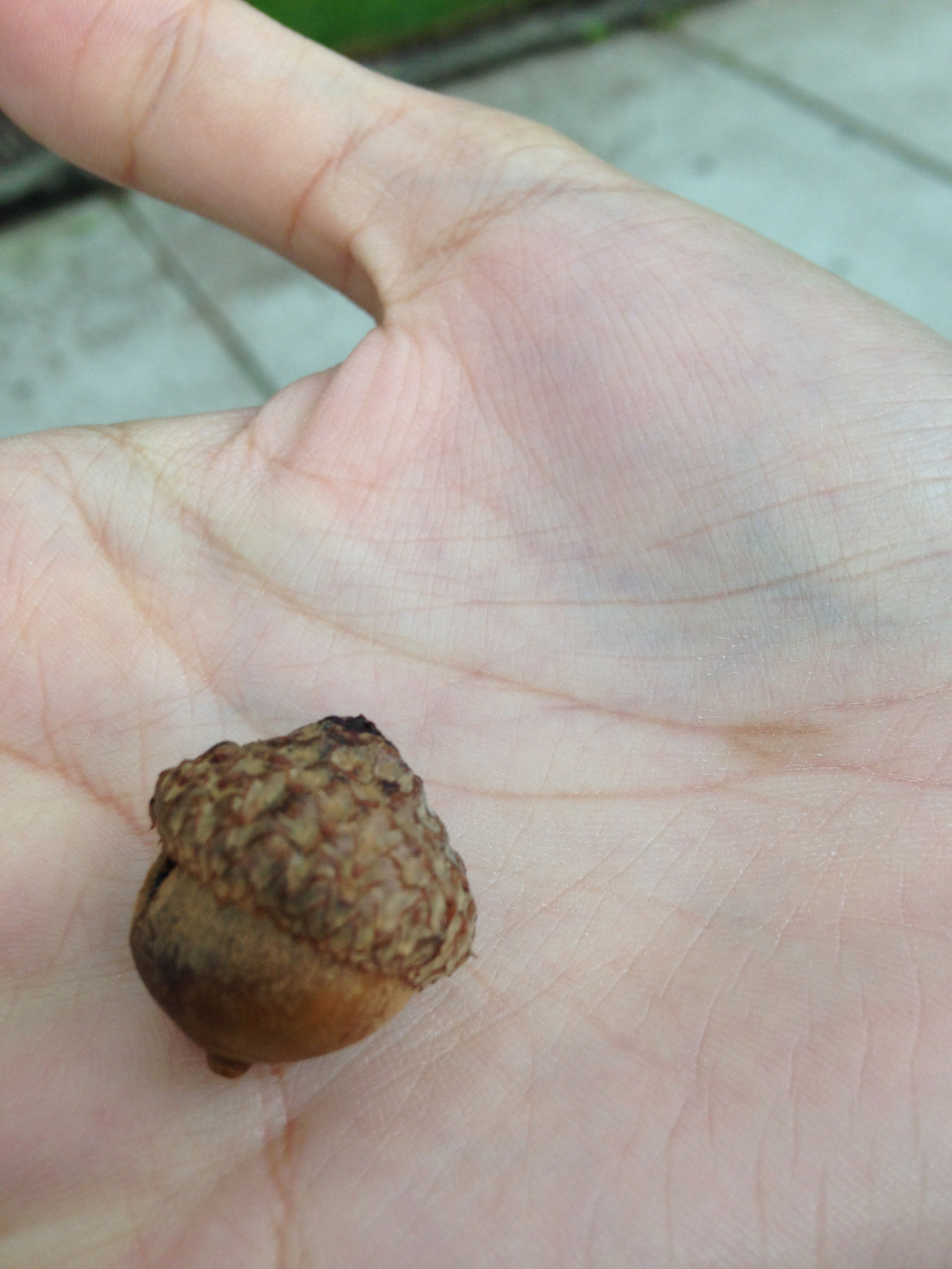 Bear Oak acorn